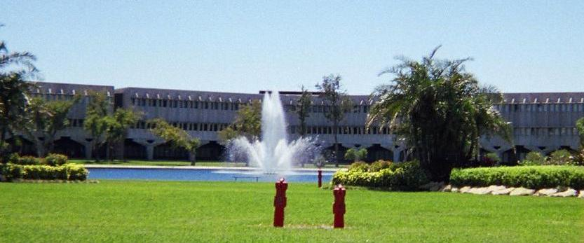 T-REX Corporate Center was originally one of IBM's research labs where the IBM PC was created. Applied Card Systems, the in-house collection for Cross Country Bank, is located here among many other businesses.